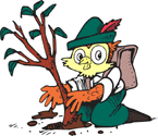 Woodsy Owl is an owl icon for the United States Forest Service most famous for the motto "Give a hoot — don't pollute!" Woodsy's current motto is "Lend a hand — Care for the Land!"